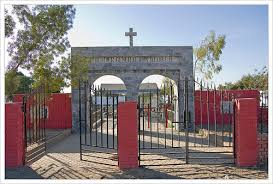 This is a photo of a monument in Pakistan identified as the SD-U-2